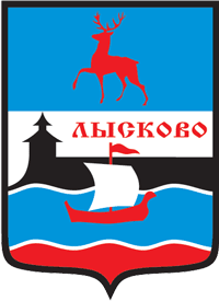 Lyskovo (Nizhny Novgorod), coat of arms